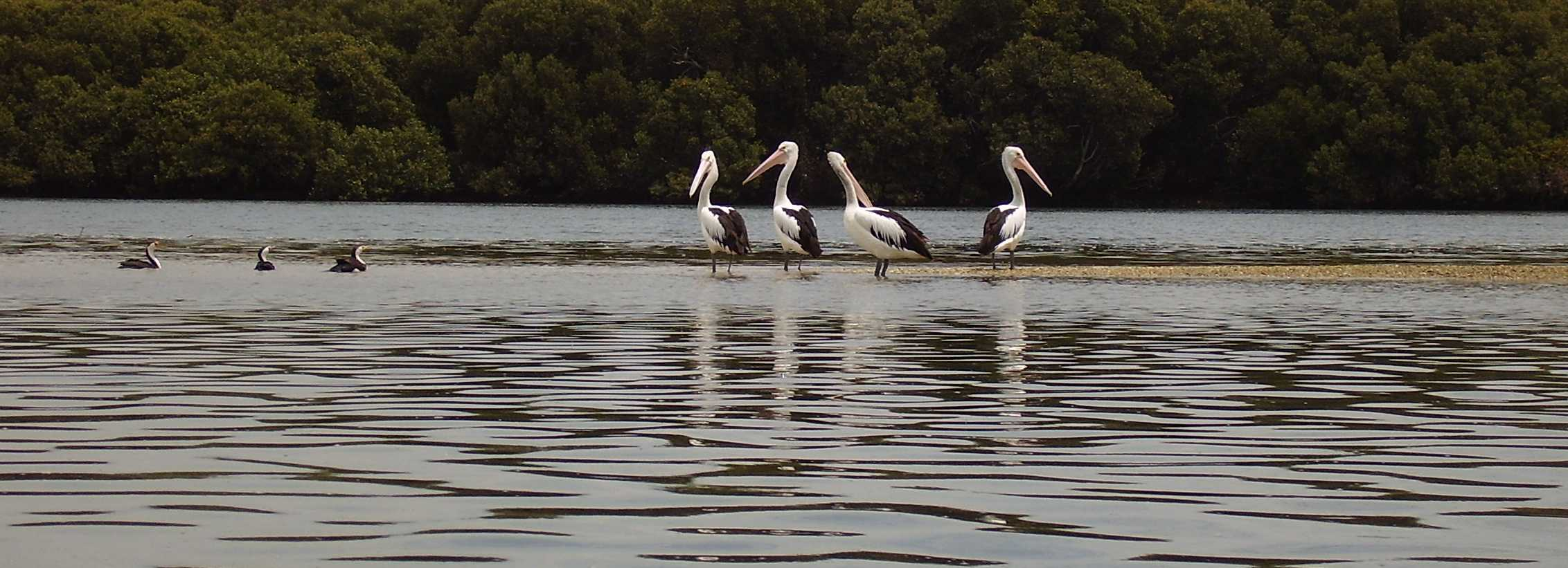 Picture taken from a kayak of pelicans on mudflats, Barker inlet, south australia